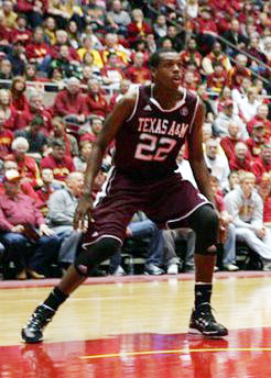 Khris Middleton playing for Texas A&M